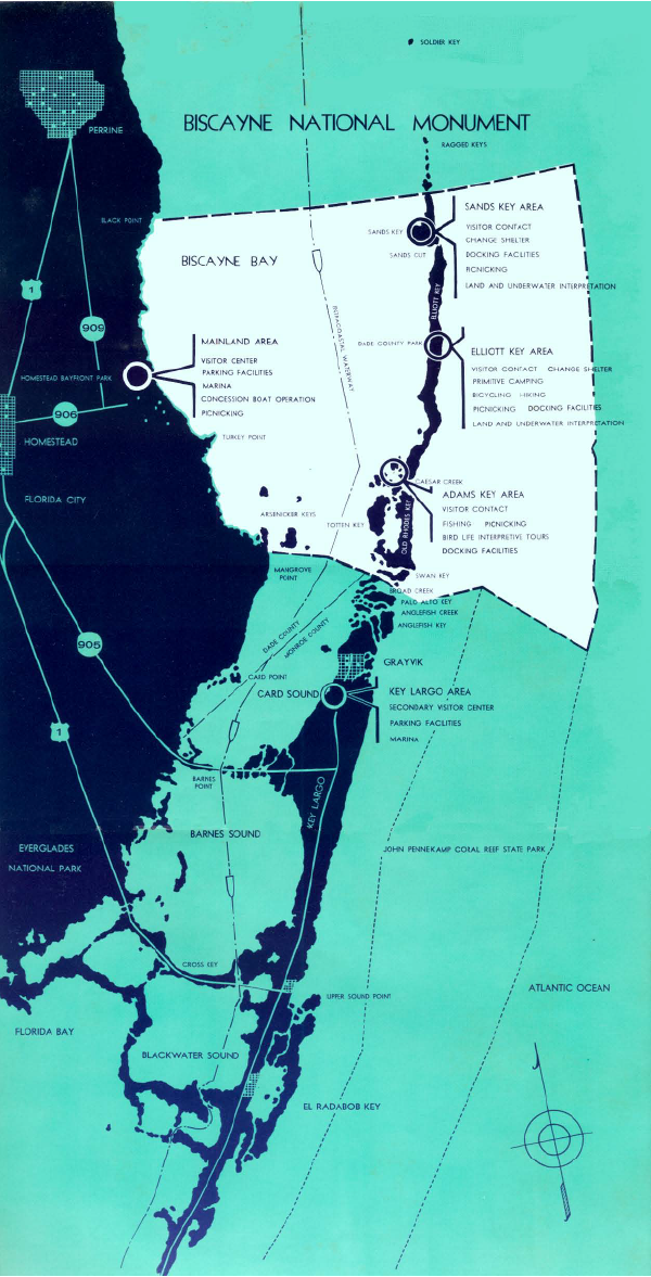 Figure 13 of Biscayne National Monument: A Proposal by the National Park Service, showing the extent of the proposed national monument, now Biscayne National Park